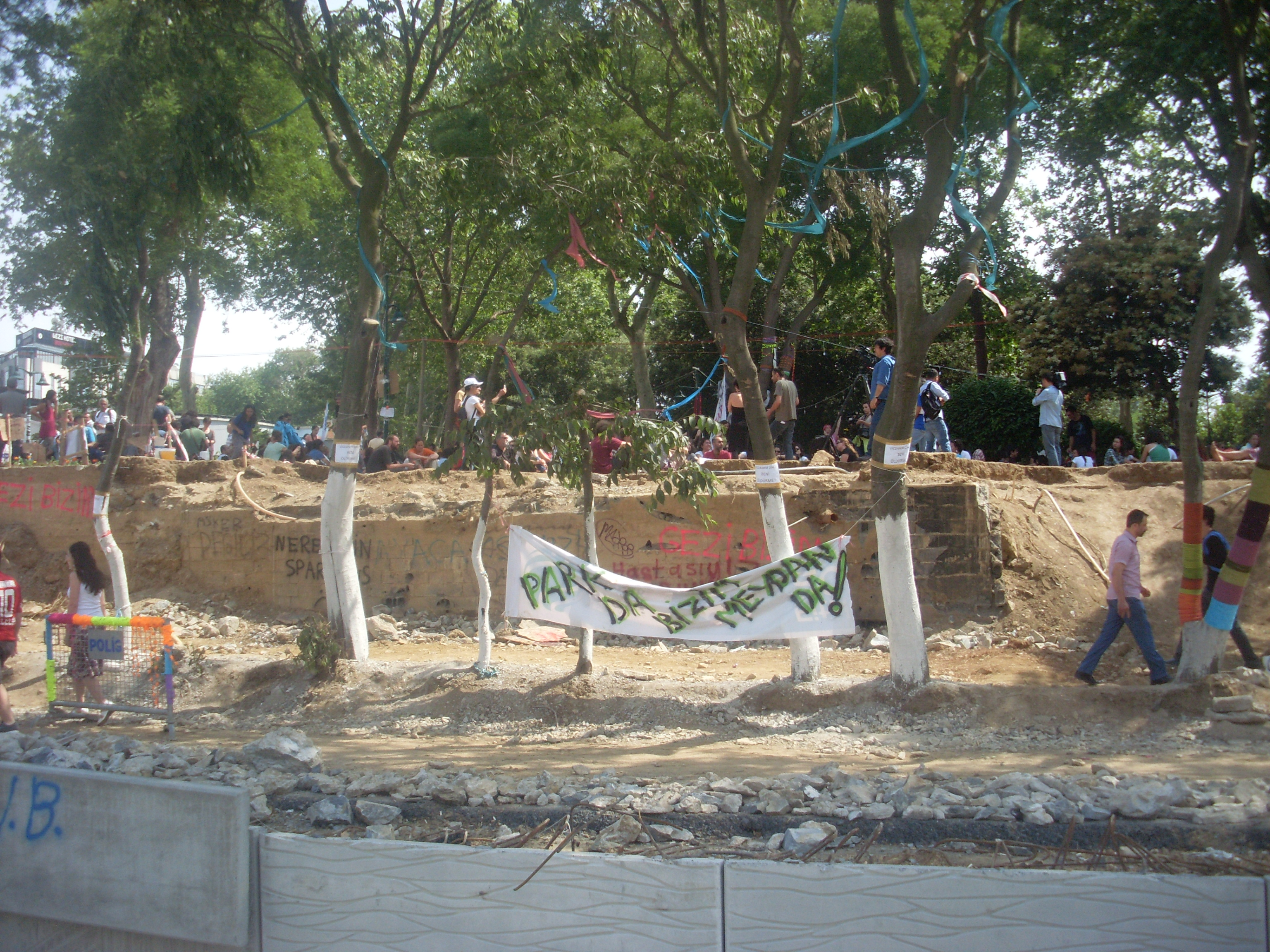 2013 Taksim Gezi Park protests, The location of the bulldozed trees on 27 May evening at Taksim Gezi Park 4